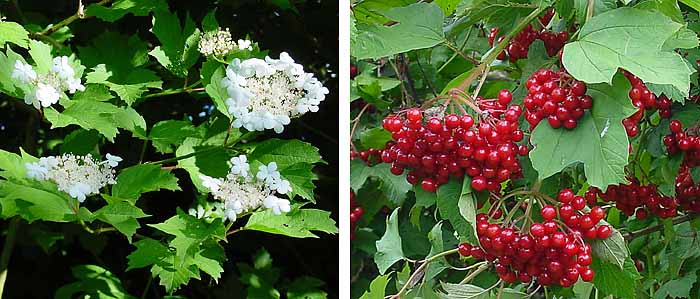 viburnum opulus (photo Wouter Hagens). The original individual photos are: 2002-05-21 2002-09-01